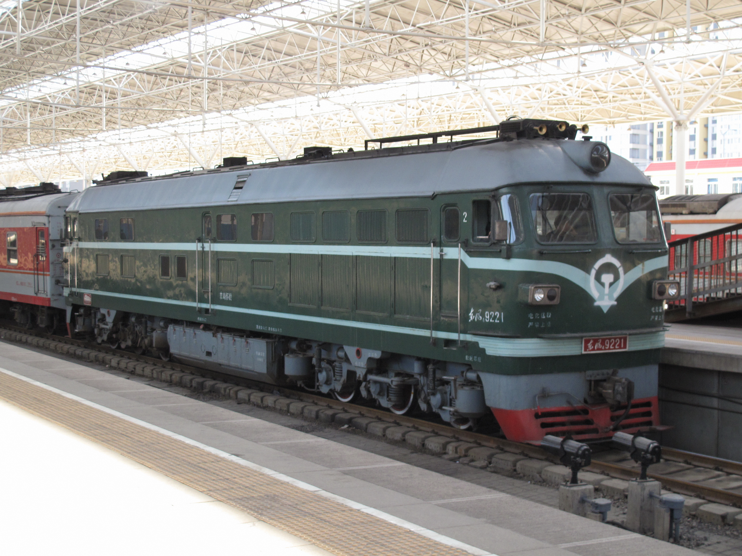 China Railways DF4B 9221, Beijing North Railway Station